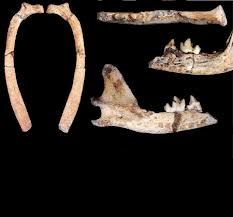 The partial skeleton of the type specimen of Vulpes skinneri. Malapa site, South Africa